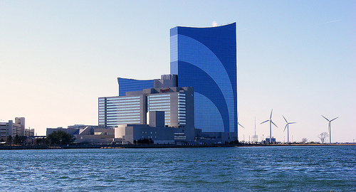 Harrah's Atlantic City 777 Harrah's Blvd